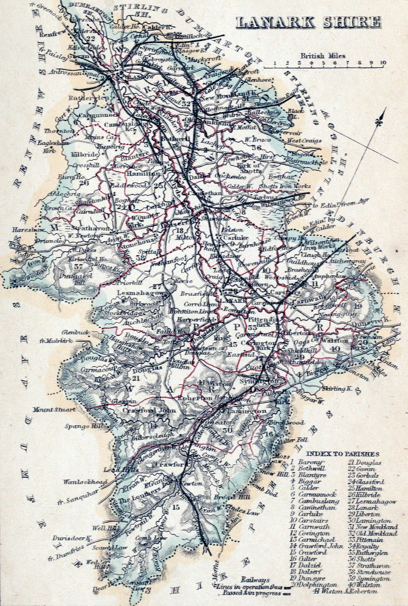 The Imperial gazetteer of Scotland. VOL.II. Edited by Rev. John Marius Wilson